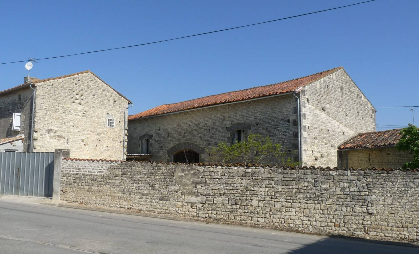 Farmhouse and architecture based on limestone small bricks (typical of Boixe area), Coulonges, Charente, SW France. Building in the village, located north of the church (Templar knight chapel).